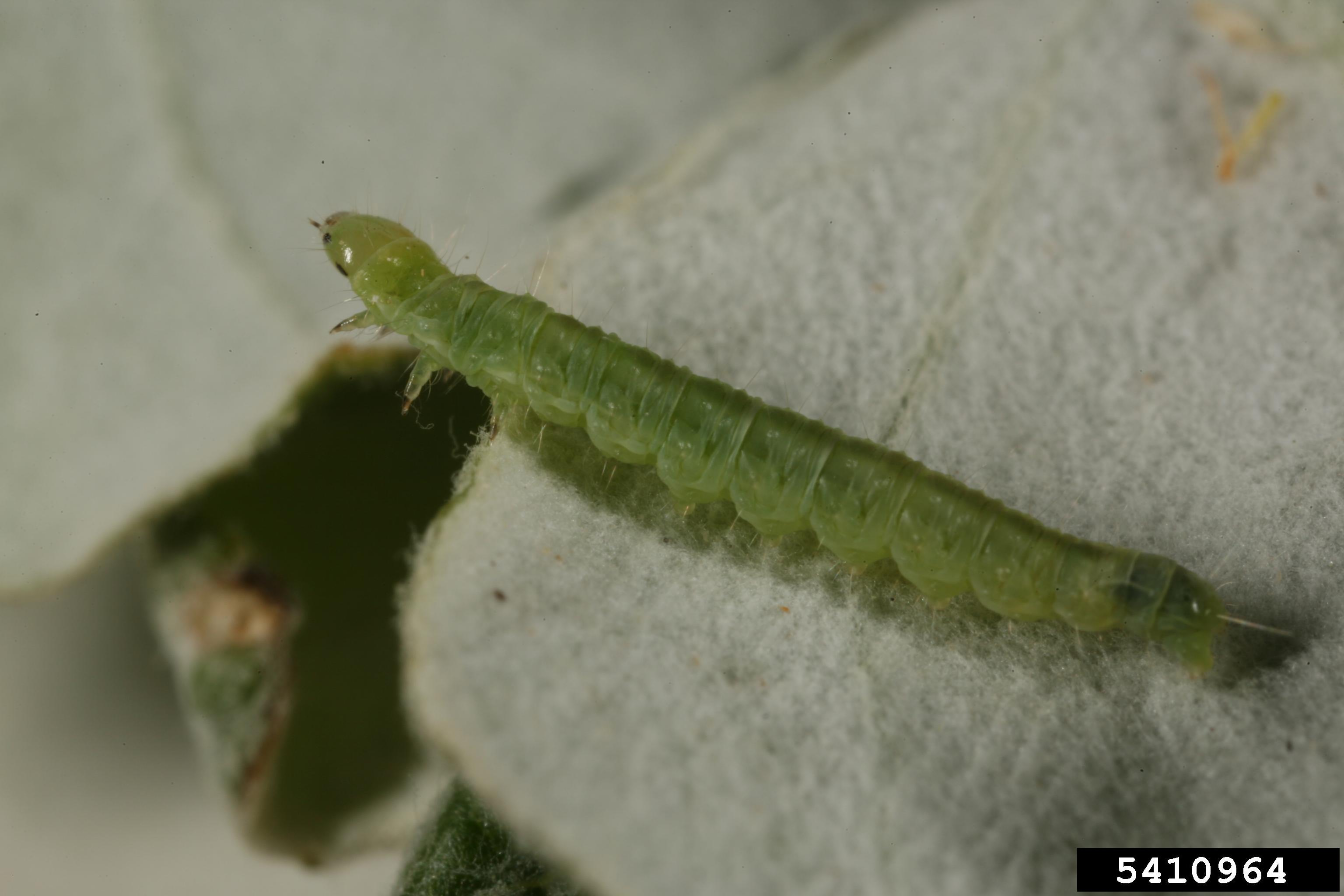 dark fruit-tree tortrix - Pandemis heparana (Denis & Schiffermüller) Host: oak (Quercus spp. L.) Descriptor: Larva(e) Image location: Hungary Image type: Laboratory